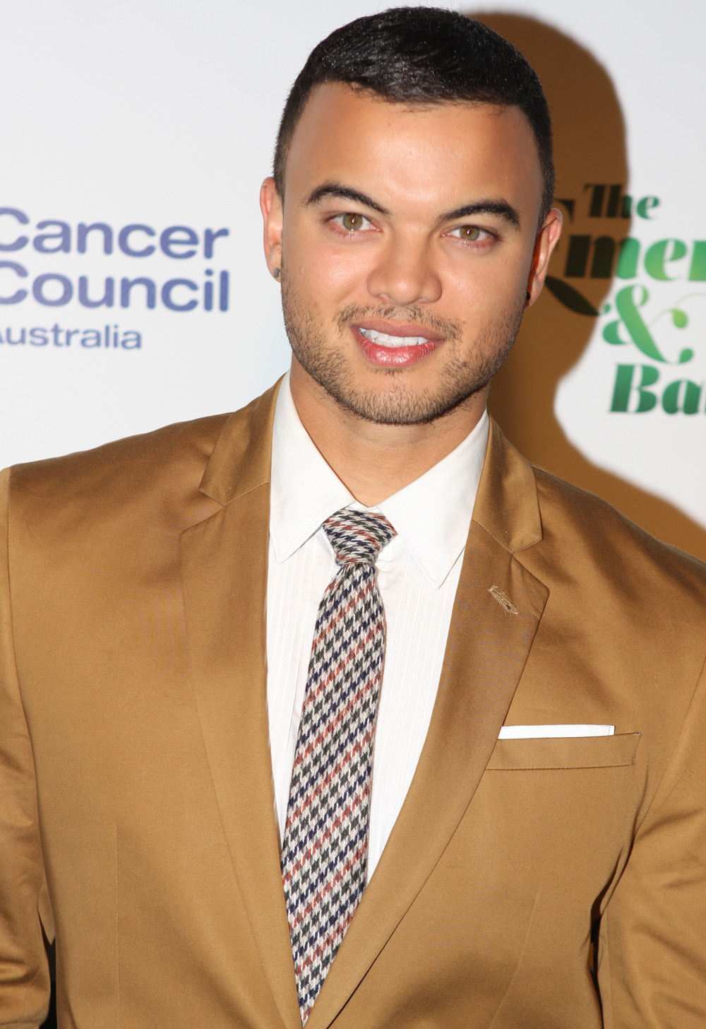 Guy Sebastian at the The Ivy Ballroom in Sydney, November 2012.